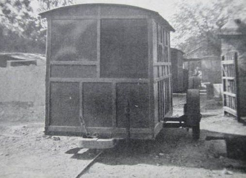 Patiala State Monorail Trainways - A closed passenger coach showing the single rail and the ø36 in iron balance wheel